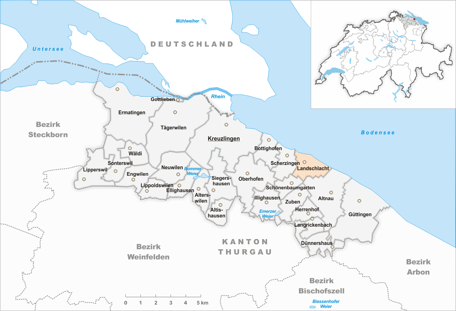 Municipality Landschlacht